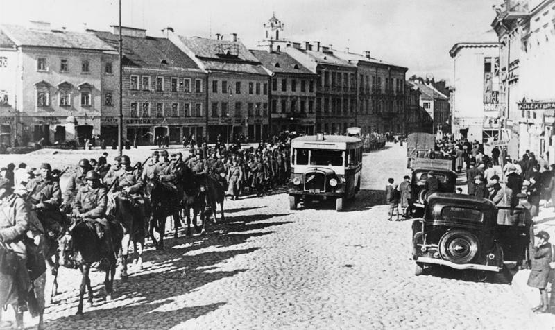 Soviet Red Army entering the Polish city of Wilno (Vilnius) after the joint German-Russian aggression against Poland.